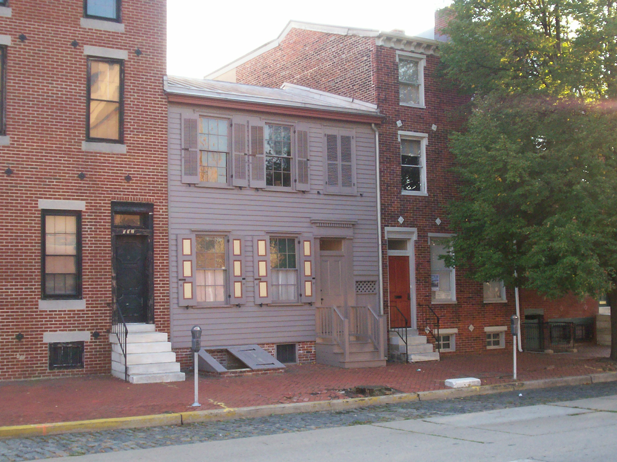 The Walt Whitman House in Camden, NJ, where Walt Whitman spent the last years of his life. Note: Whitman's House is the gray one in the middle, not made of brick. The house to the right serves as the Visitors Center.